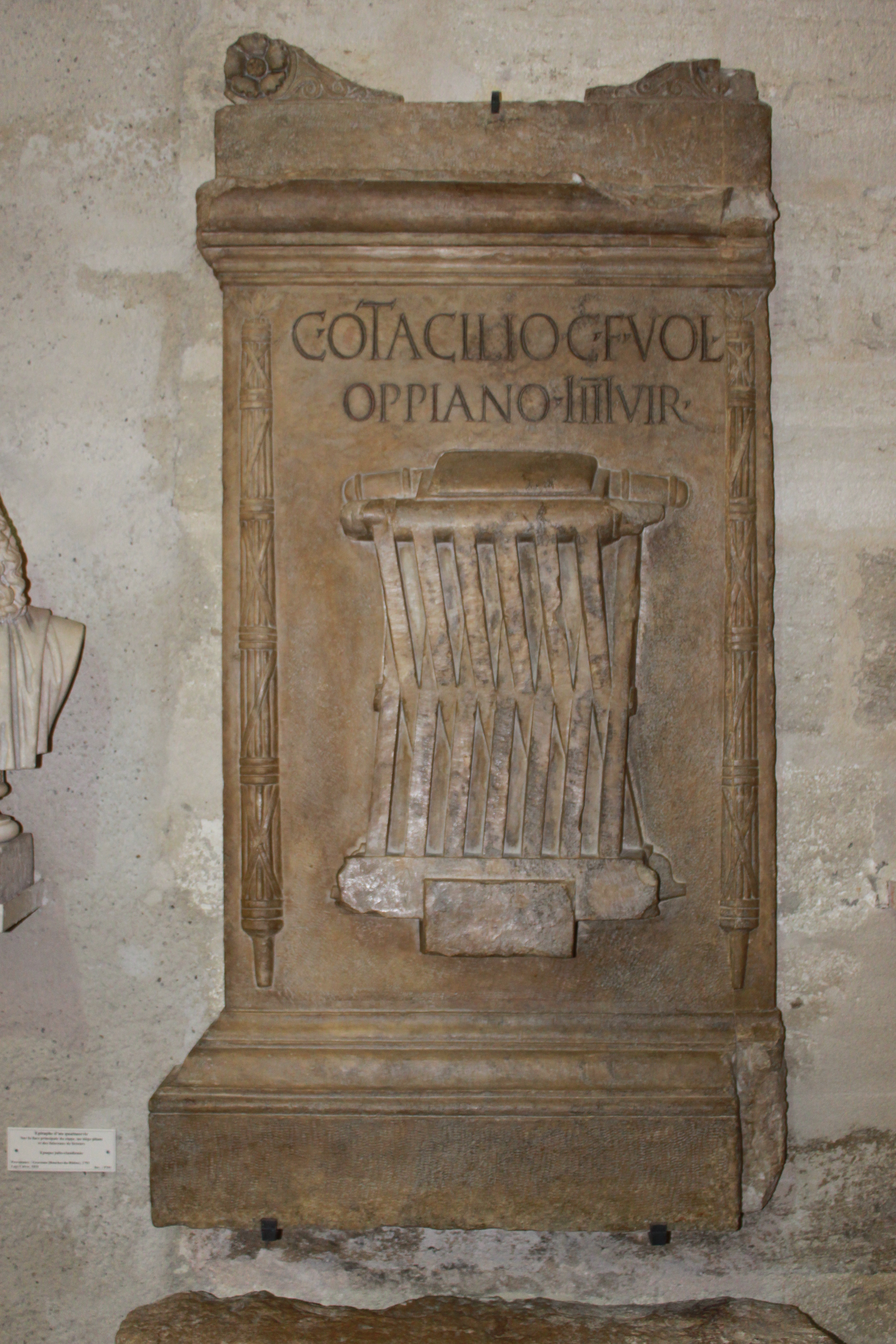 An ancient roman inscription discovered in 1793 in Graveson (Provence), now in Musée Calvet, Avignon, France (Inventory number f101). It is carved from marble in the form of an altar. The inscription reads "C(aio) Otacilio, C(aii) f(ilio), Vol(tinia tribu) / Oppiano, IIIIuir(o)." In